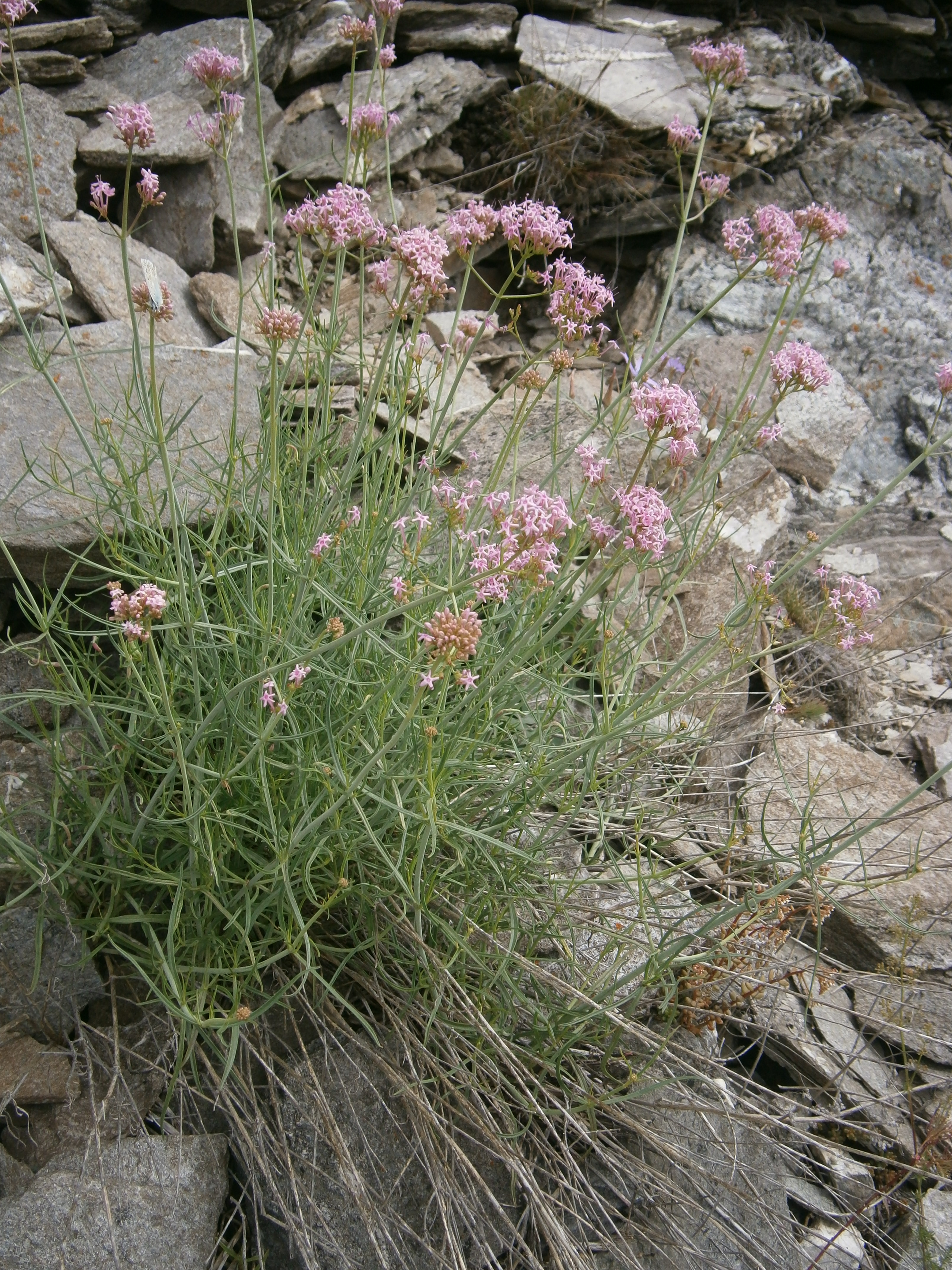 Centranthus angustifolius